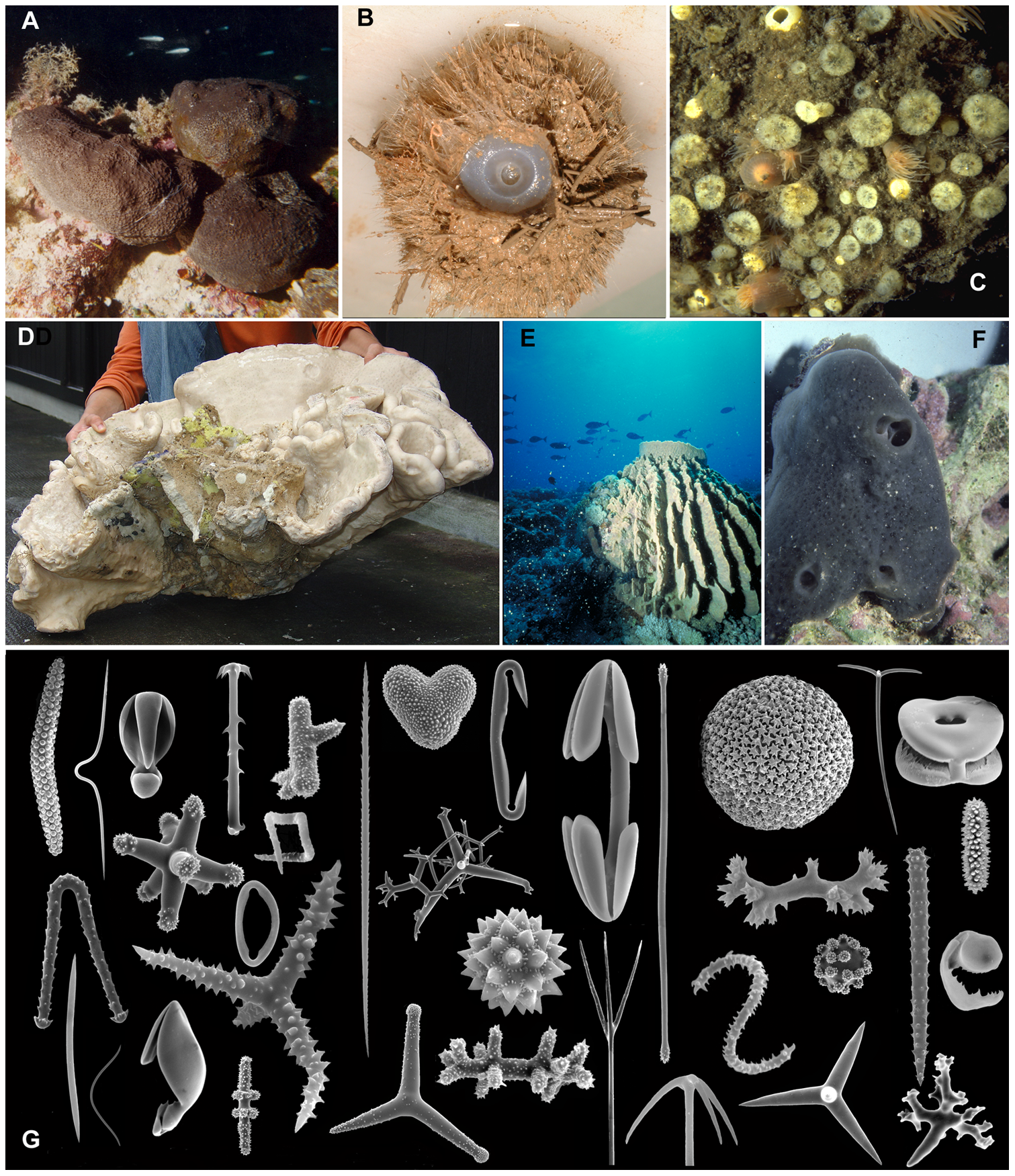 A. Bath sponge, Spongia officinalis, Greece (photo courtesy E. Voultsiadou); B. Bathyal mud sponge Thenea schmidti; C. Papillae of excavating sponge Cliona celata protruding from limestone substratum (photo M.J. de Kluijver); D. Giant rock sponge, Neophrissospongia, Azores (photo F.M. Porteiro/ImagDOP); E. Giant barrel sponge Xestospongia testudinaria, Lesser Sunda Islands, Indonesia (photo R. Roozendaal); F. Amphimedon queenslandica (photo of holotype in aquarium, photo S. Walker); G. SEM images of a selection of microscleres and megascleres, not to scale, sizes vary between 0.01 and 1 mm.